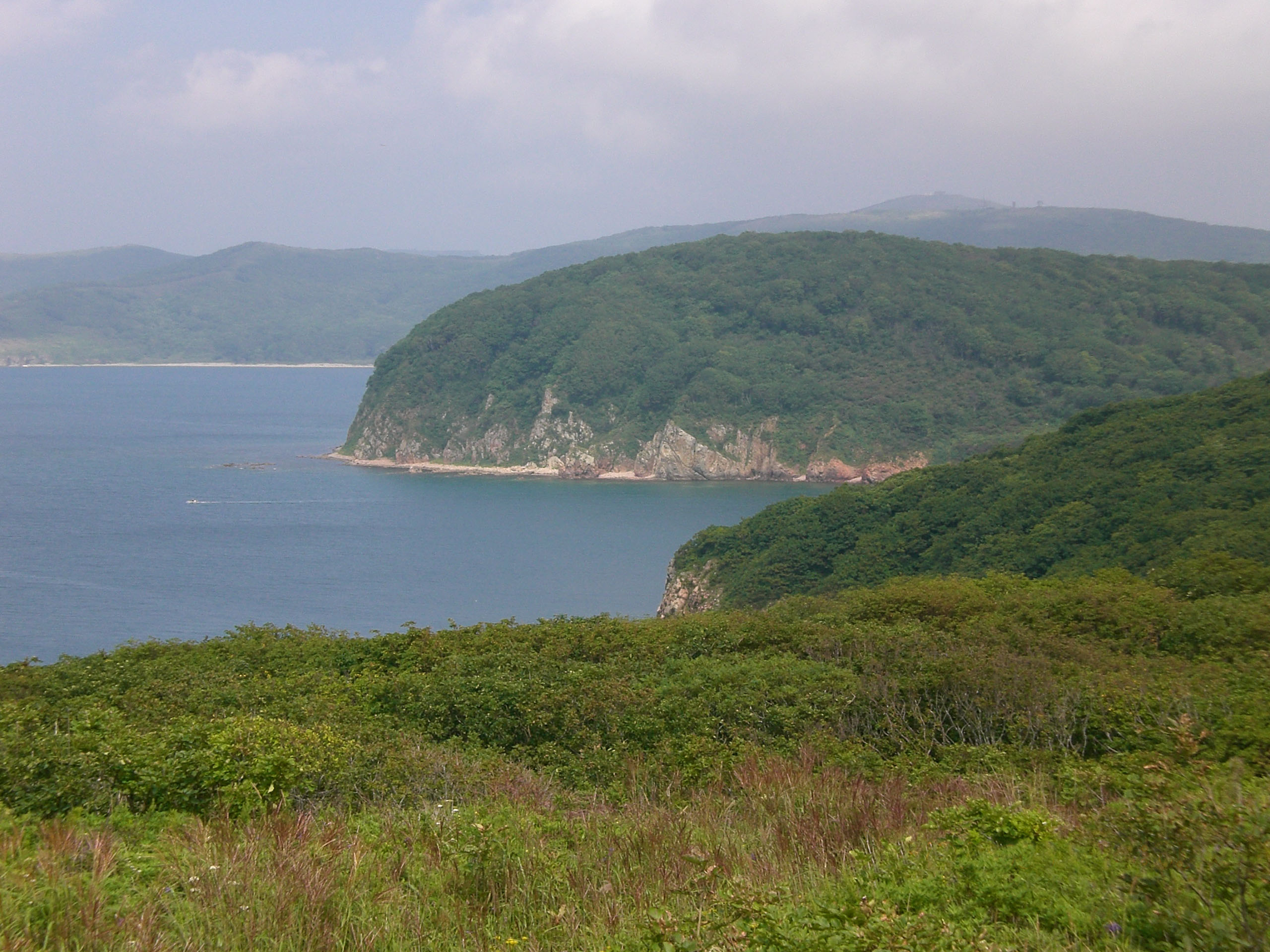 Dotovaya inlet located on west coast Shkot island, Vladivostok